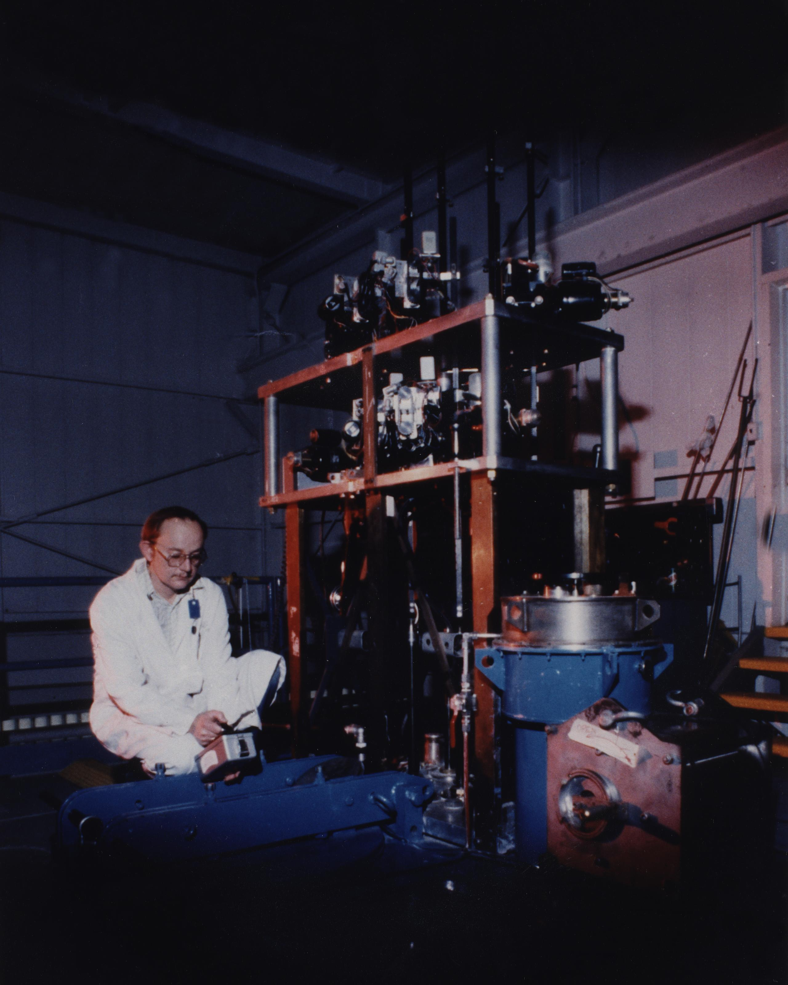 TECHNICIAN MONITORING THE OMEGA WEST REACTOR. THE OMEGA WEST REACTOR (OWR) IS A HETEROGENEOUS REACTOR. ITS FUEL ELEMENTS, WHICH CONTAIN ALUMINUM AND ENRICHED URANIUM, ARE ARRANGED IN A MATRIX NEAR THE BOTTOM OF A STAINLESS STEEL TANK ABOUT 24 FEET TALL. IN NORMAL OPERATION THIS TANK IS COMPLETELY FILLED WITH COOLING WATER, WHICH LIMITS THE UPWARD ESCAPE OF RADIATION AND AT THE SAME TIME PERMITS BOTH VISUAL OBSERVATION OF THE CORE AND PHYSICAL ACCESS TO IT FOR INSERTION AND REMOVAL OF SAMPLES. THE OWR HAS EXPERIMENTAL FACILITIES FOR SAMPLE IRRADIATION, EXTERNAL NEUTRON BEAM EXPERIMENTS, RADIATION DAMAGE STUDIES,IN-CORE RADIATION OF INSTRUMENTAL CAPSULES, FISSIONABLE MATERIALS FOR ASSAY WEAPON DIAGNOSTICS AND NEUTRON RADIOGRAPHY. OWR IS USED IN A MAJOR BASIC RESEARCH PROGRAM AT LOS ALAMOS NATIONAL LABORATORY TO STUDY THE ENERGY-LEVEL STRUCTURE OF THE ATOMIC NUCLEI, USING HIGH-RESOLUTION MEASUREMENTS OF GAMMA RAYS EMITTED FOLLOWING NEUTRON CAPTURE OF BETA-RAY EMISSION. For more information or additional images, please contact 202-586-5251.